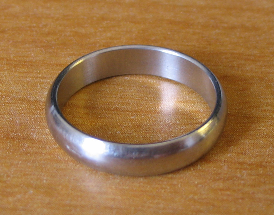 Photo of my Engineer's Ring; pre-Photoshop version available on request